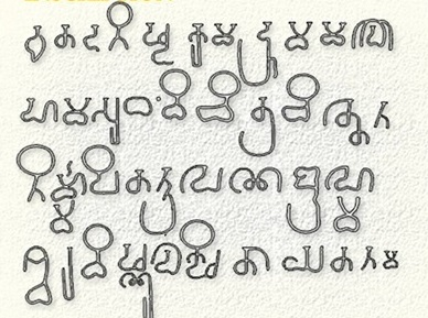 A 2-D print of the early 7th-century Pallava Grantha script, Sanskrit inscription at the Mandakapattu Tirumurthi temple. For a 3-D photo: see Mandagapattu is a small agriculture-based village few kilometers east of a modern highway in Tamil Nadu. It preserves an important 7th-century Hindu temple, significant to the history of architecture and writing scripts of South India. Dedicated to Brahma, Vishnu and Shiva, it includes a Sanskrit inscription in Grantha script which states that it is first rock cut cave temple made without "wood, brick, metal or mortar". The temple is credited to the Pallava king Mahendravarman I. The three sanctum temple faces north, has two pillars and two pilasters. It has an ardha mandapa and a mukhya mandapa as recommended by the ancient shilpa shastras. The statues inside each sanctum are missing (the sockets which held these are still present). In the front are two dvarapalas. These rock-cut door guardian reliefs show some 7th-century cultural aspects such as dress, jewelry and weapons. They wear tall, conical decorated headgear, a style that is found in numerous carvings and statues between the 7th- and 16th-century South Indian temples (later adopted by Vijayanagara Hindu kings, royalties as well as Islamic sultans and nawabs). The pilaster near the western dwarapala has the famous Sanskrit inscription in Grantha script (above). There is another minor inscription on the floor. The temple is simple and the pillar attests to the early Pallava style design.